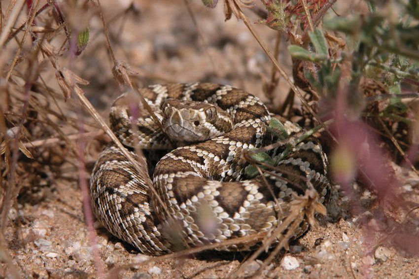 The poisonous Mojave green rattlesnake is one of the many reptiles common to the Mojave Desert area. Other snakes seen here are the sidewinder rattlesnake, the California king snake and the gopher snake.